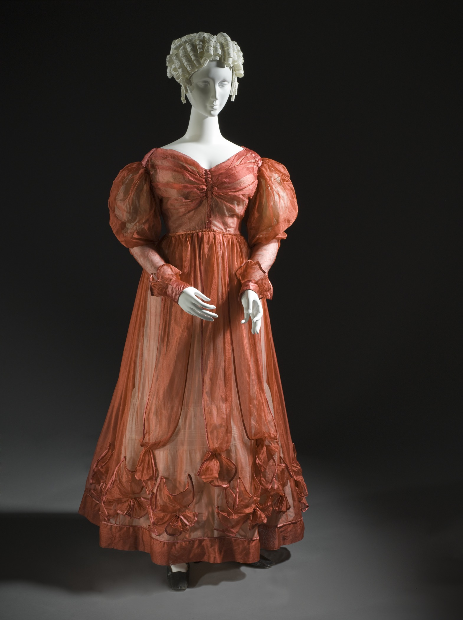 England, circa 1827 Costumes; principal attire (entire body) Silk plain weave (aeophane); silk satin lining and metal hooks and eyes; silk satin undersleeves with lace trim. Purchased with funds provided by Suzanne A. Saperstein and Michael and Ellen Michelson, with additional funding from the Costume Council, the Edgerton Foundation, Gail and Gerald Oppenheimer, Maureen H. Shapiro, Grace Tsao, and Lenore and Richard Wayne (M.2007.211.939) Costume and Textiles